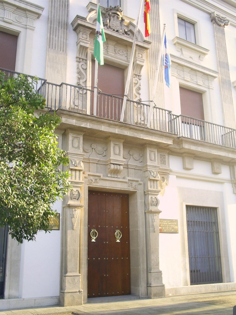 Sherry Regulate Council - picture 2 Jerez de la Frontera, Andalusia (Spain).